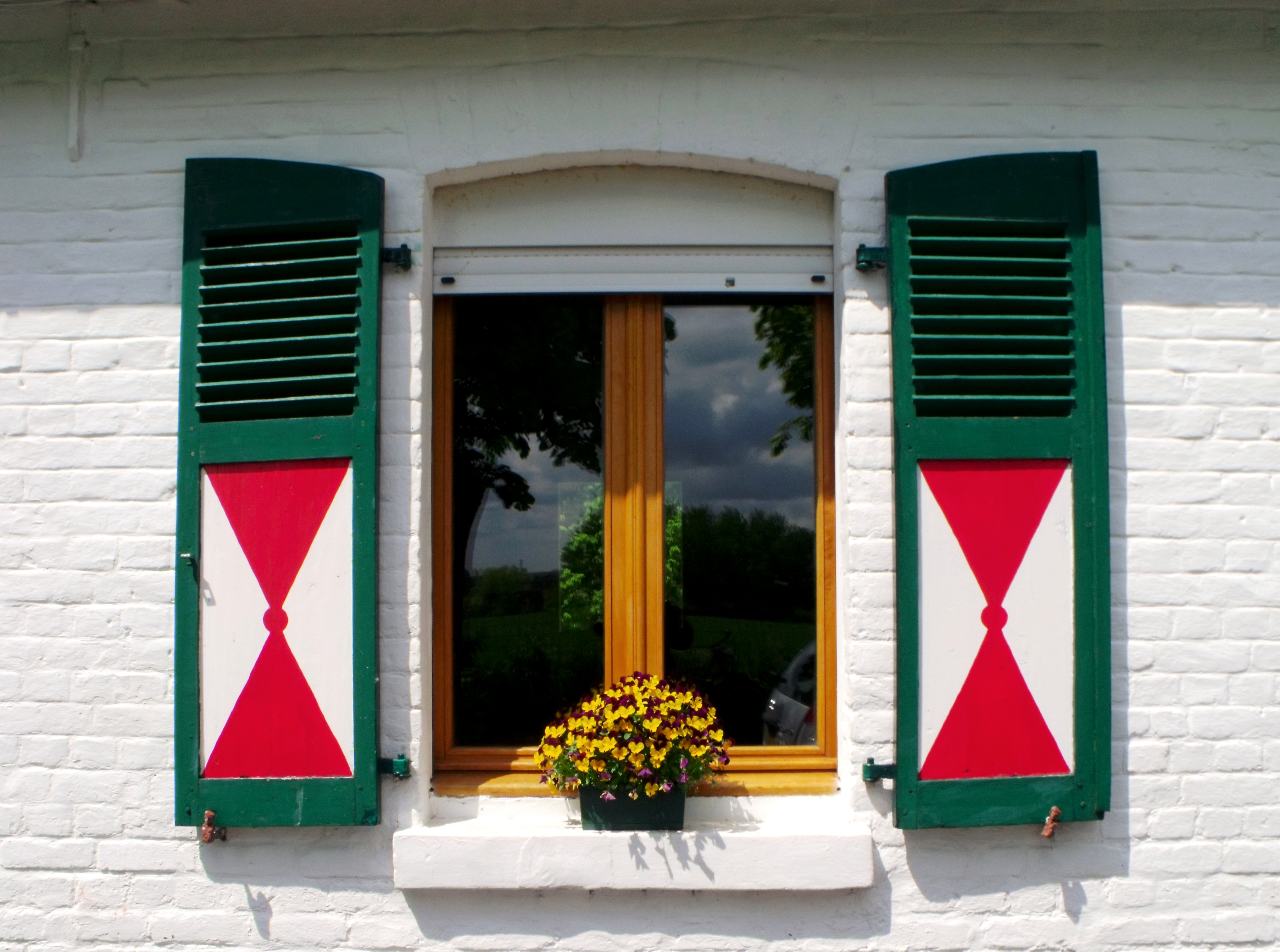 Flemish France